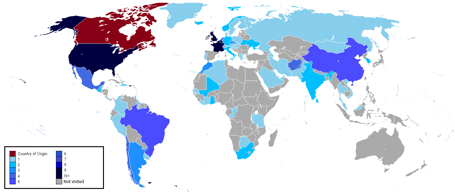 Map indicating the countries visited for state or official reasons and the number of times for each